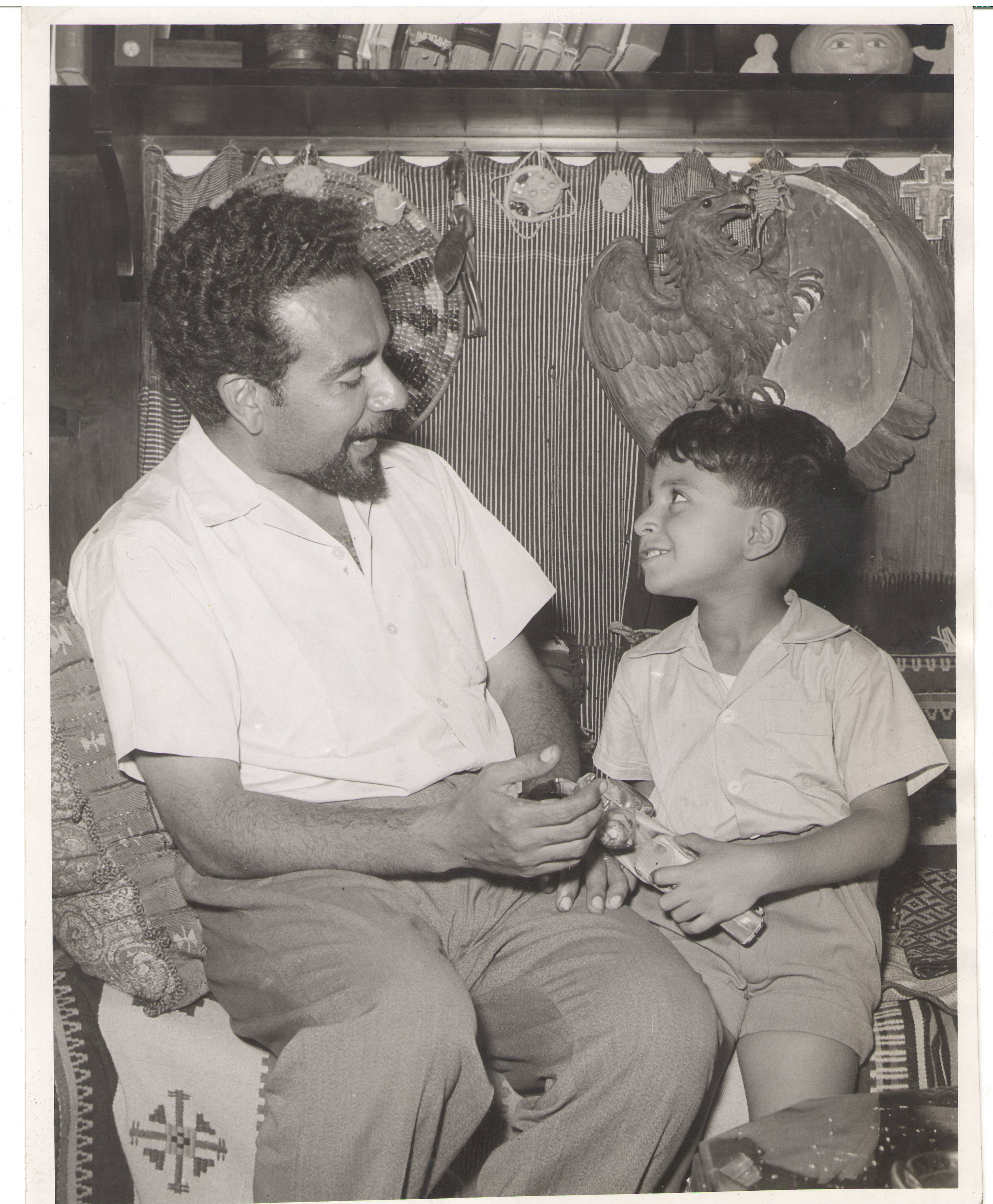 Photo Showing Egyptian Sculptor Gamal El-Sagini with his only son Magd